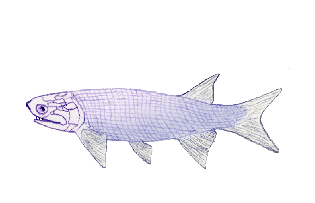 Restoration of Perleidus, an extinct bony fish